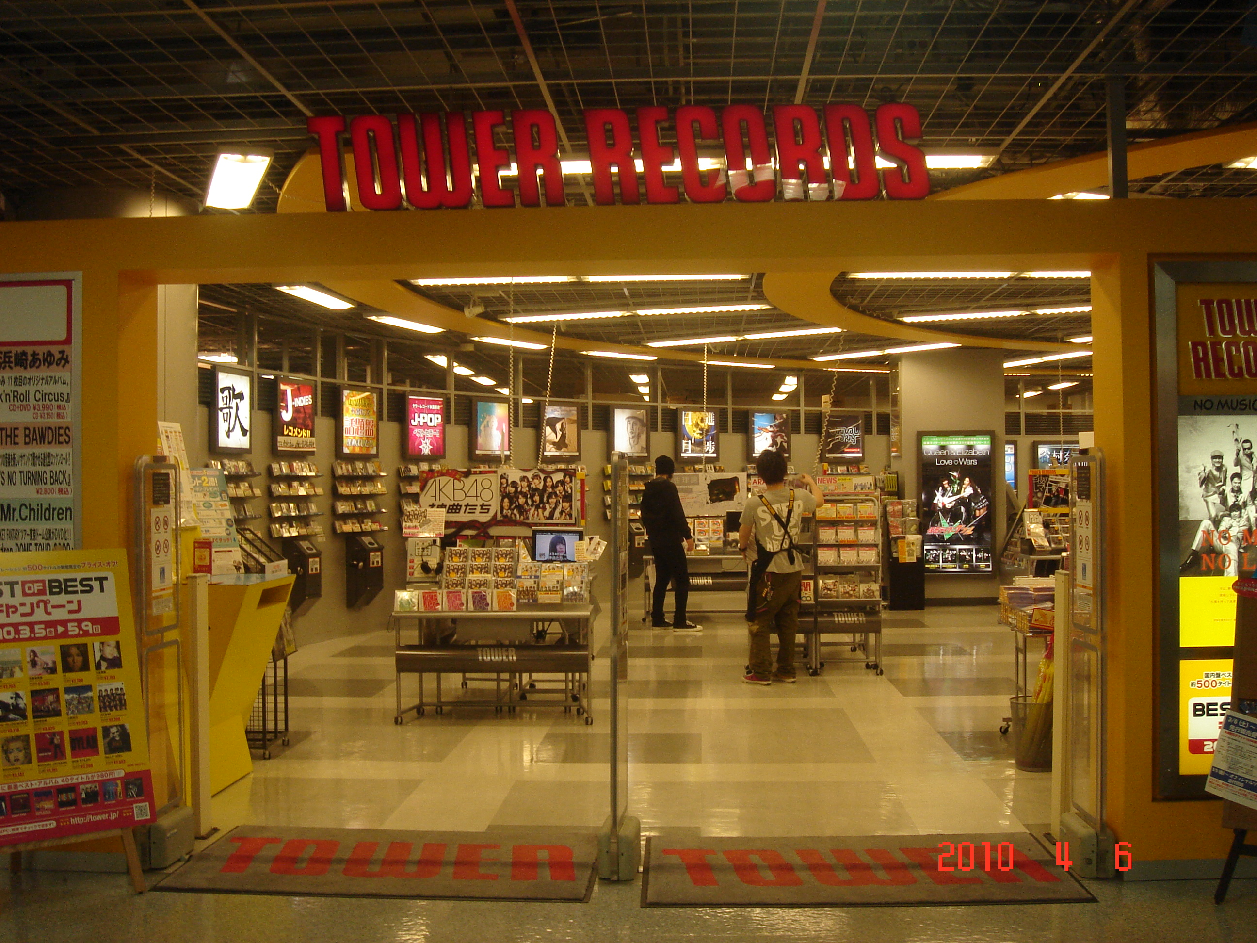 TOWER RECORDS Akihabara Yodobashi-Akiba 7F